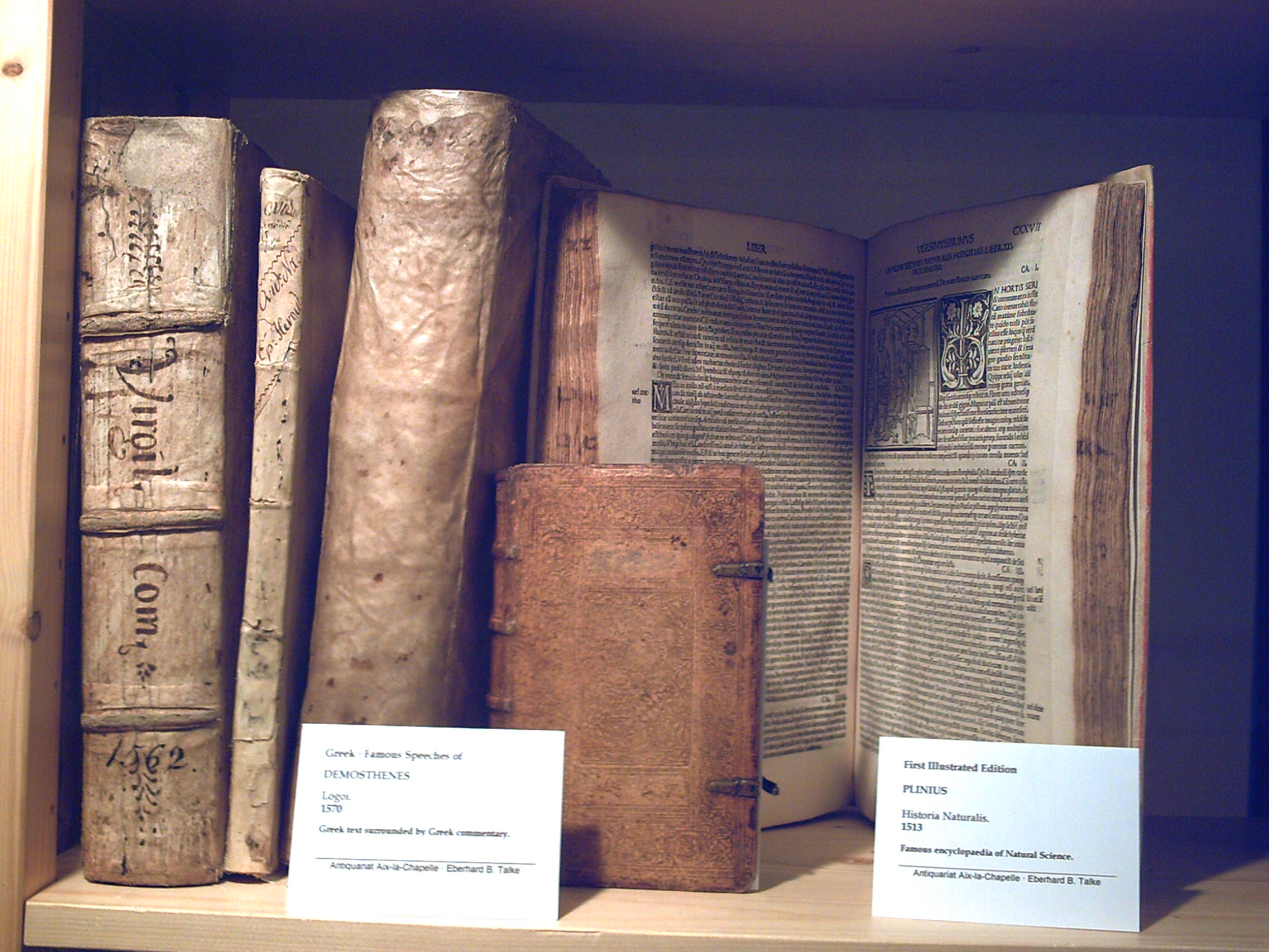 The oldest illustrated version (1513) of the Historia Naturalis of Plinius maior as presented at the 2007 Frankfurt Book Fair. Also showing a 1570 edition of the famous greek speeches, the Logoi by Demosthenes.